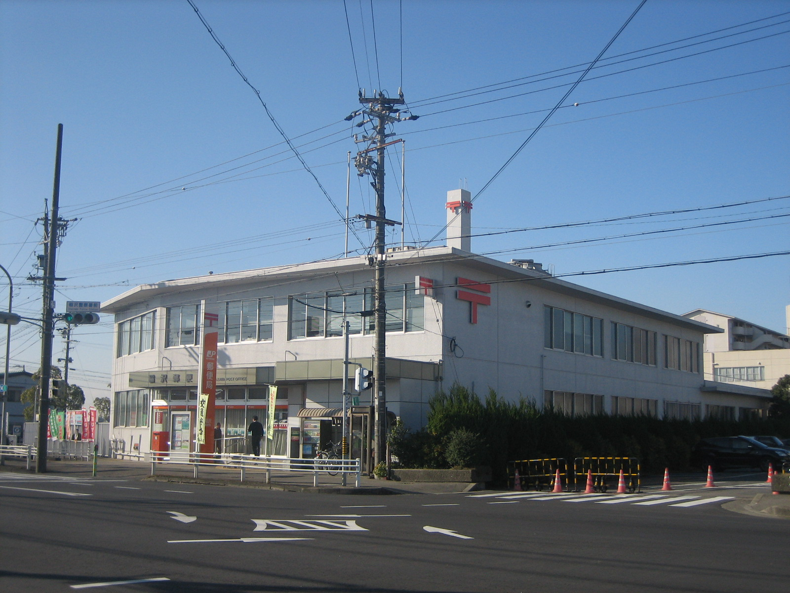 Inazawa post office in Aichi, Japan